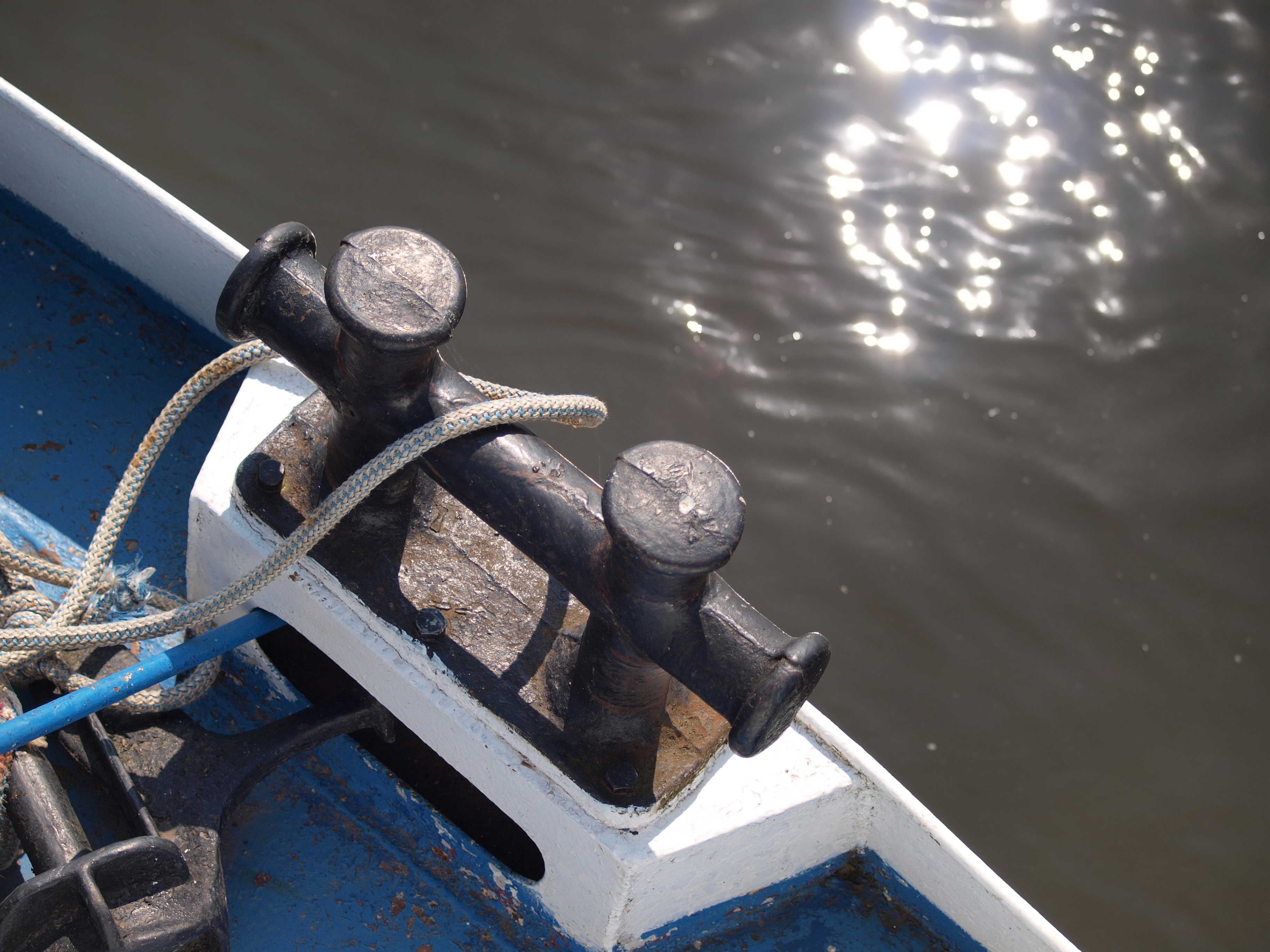 Crosspoint bollards (ship part)